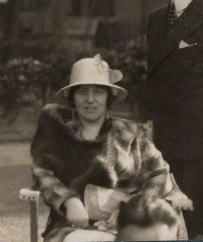 (Helen) Hope Mirrlees. Fragment of photo by Lady Ottoline Morrell.